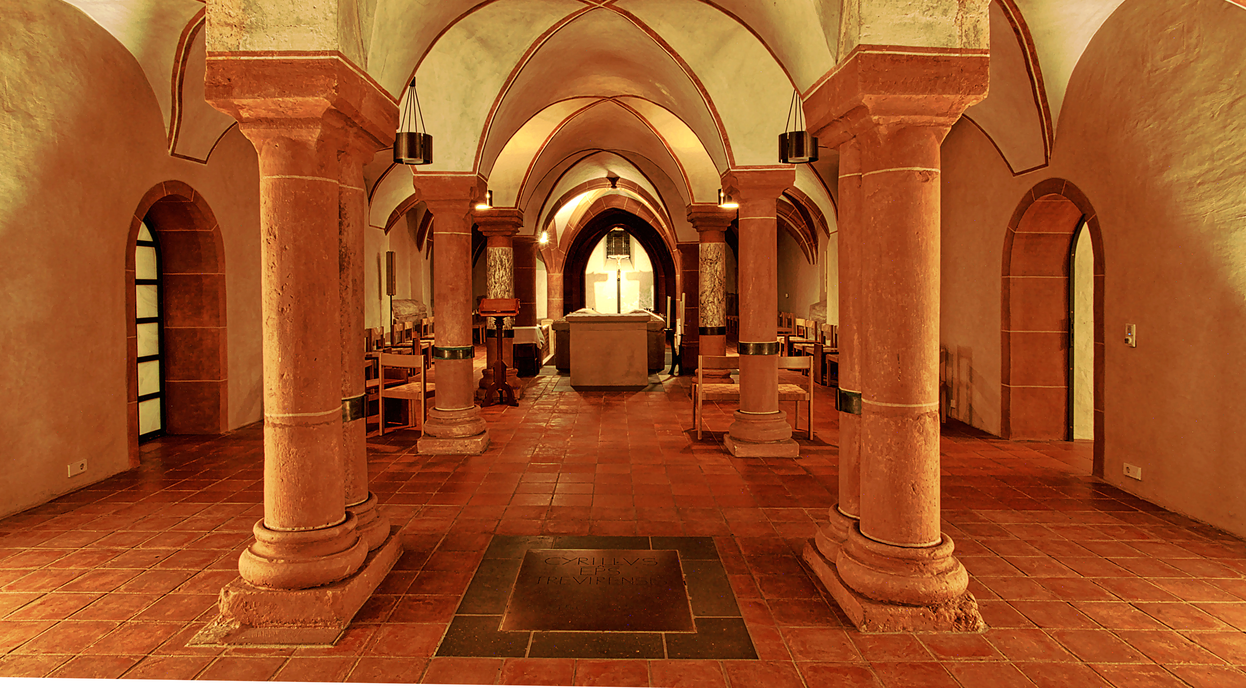 Crypt of St. Matthias (Trier /Germany) Graves of St Eucharius, St. Valerius and in the background St. Matthias